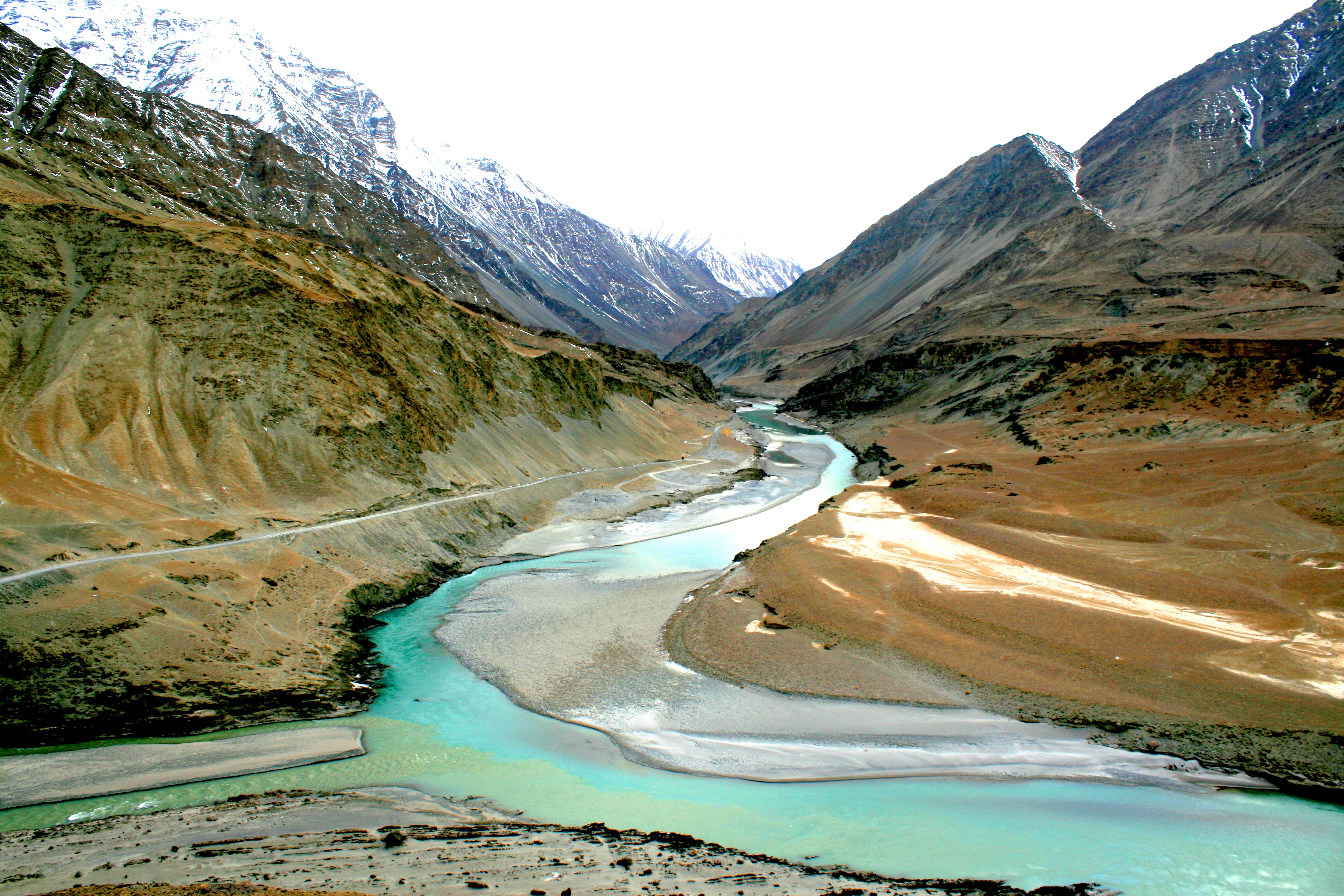 The 'sangam' meaning confluence of Zanskar and Sindu rivers in the Ladakh region of Jammu and Kashmir, India.